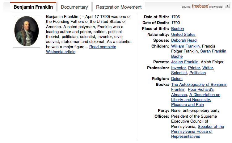 Powerset Dossier for Benjamin Franklin. Powerset returns a dossier for many topics. Powerset assembles information from both the Wikipedia article and Freebase.